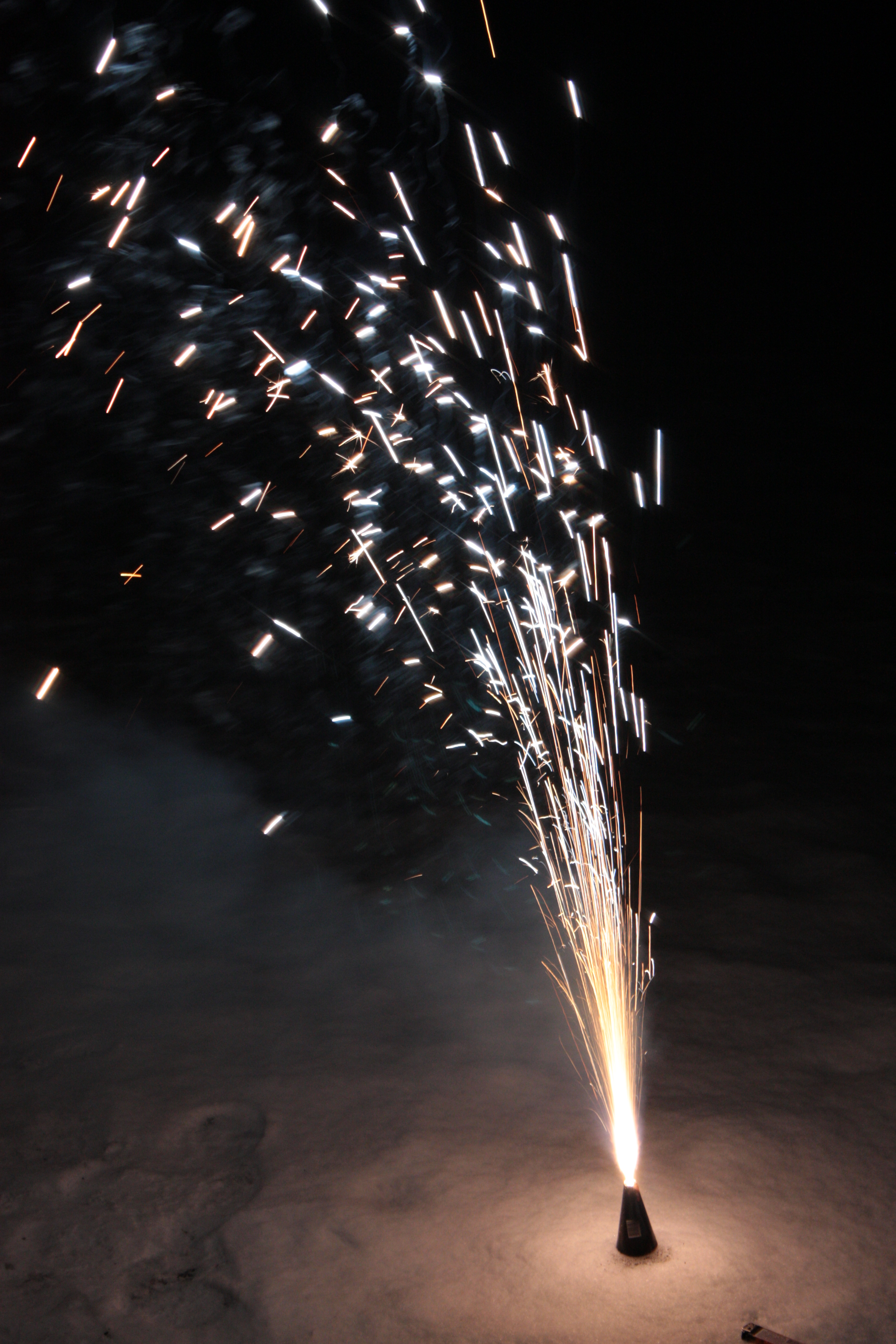 A fountain from fire.